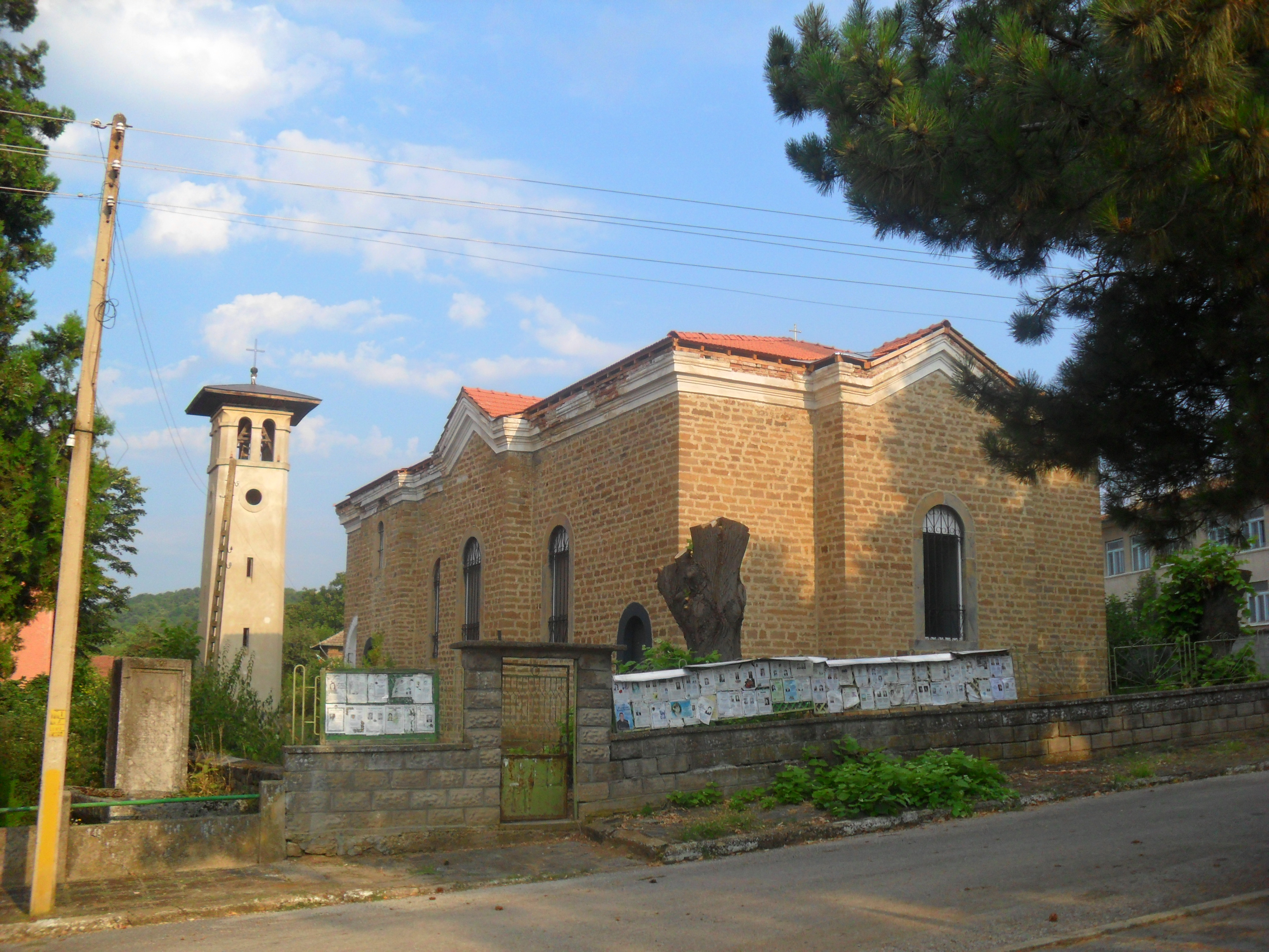 Build i 1897